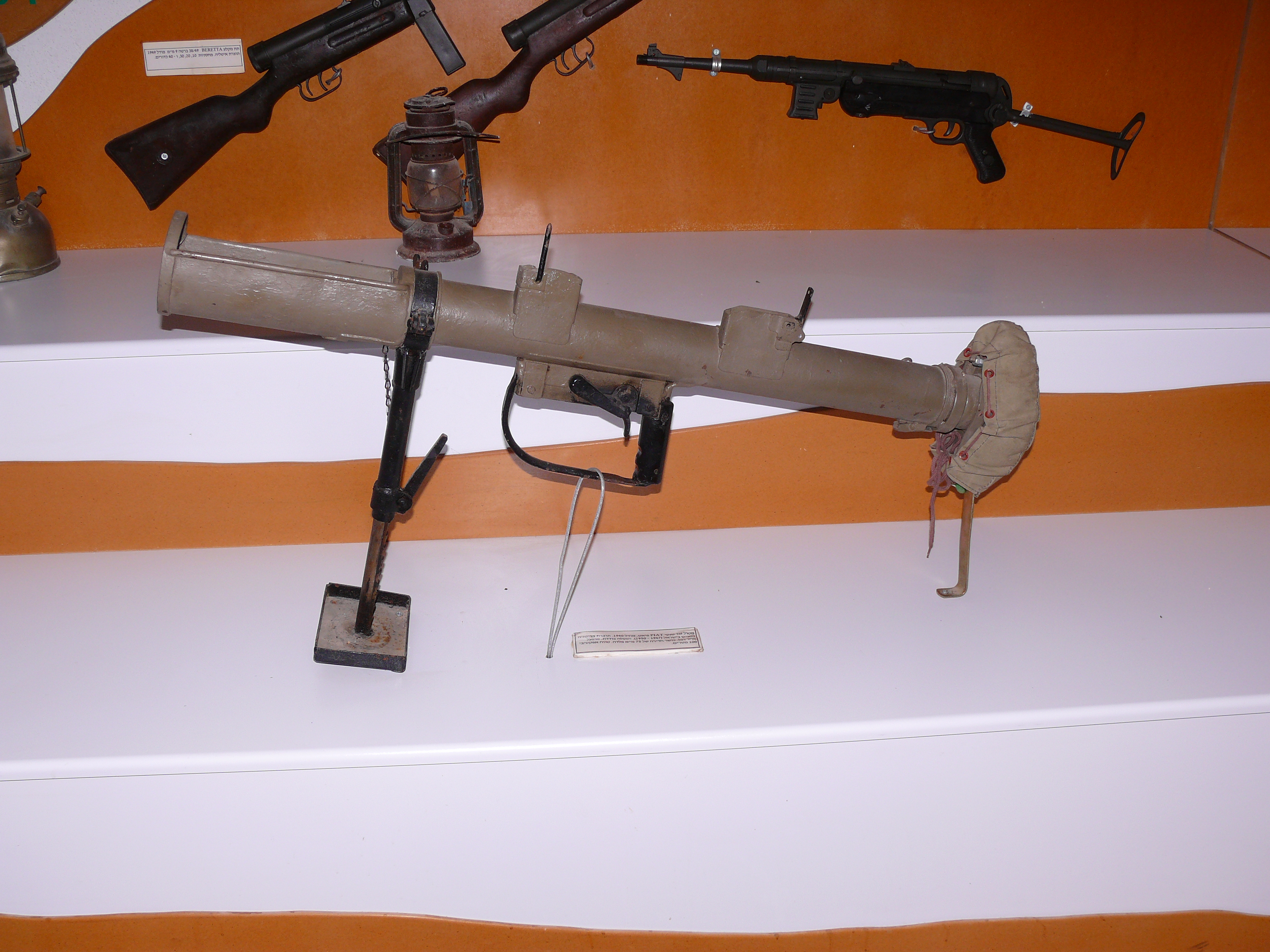 PIAT in Metzudat Yoav - Givaty Museum